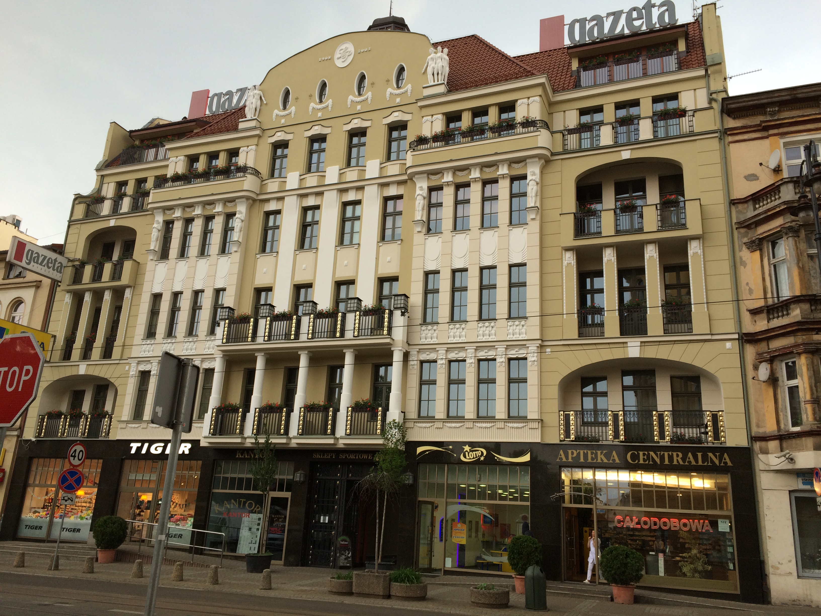 Main facade